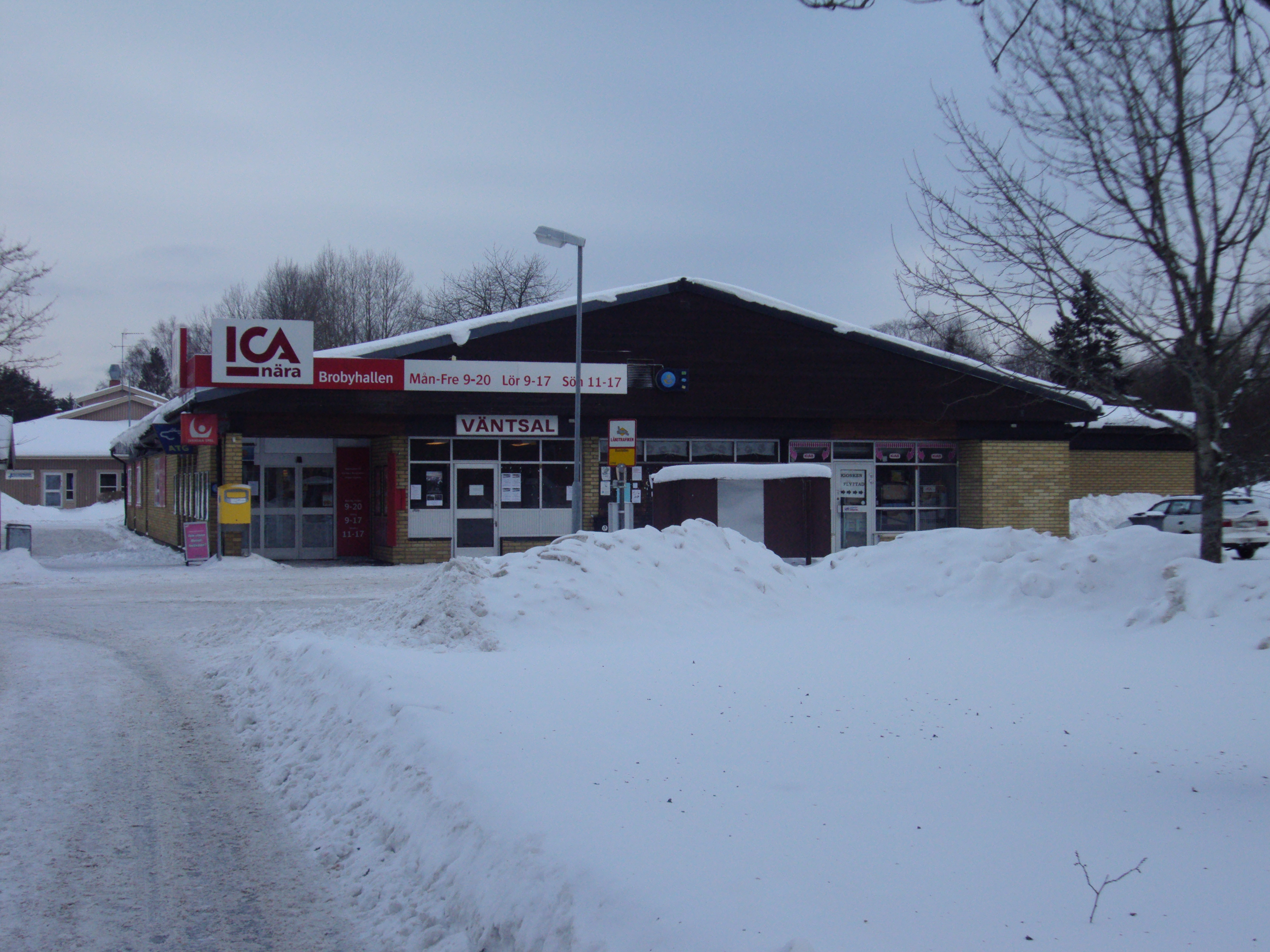 Central part of Landsbro, Sweden with busstop